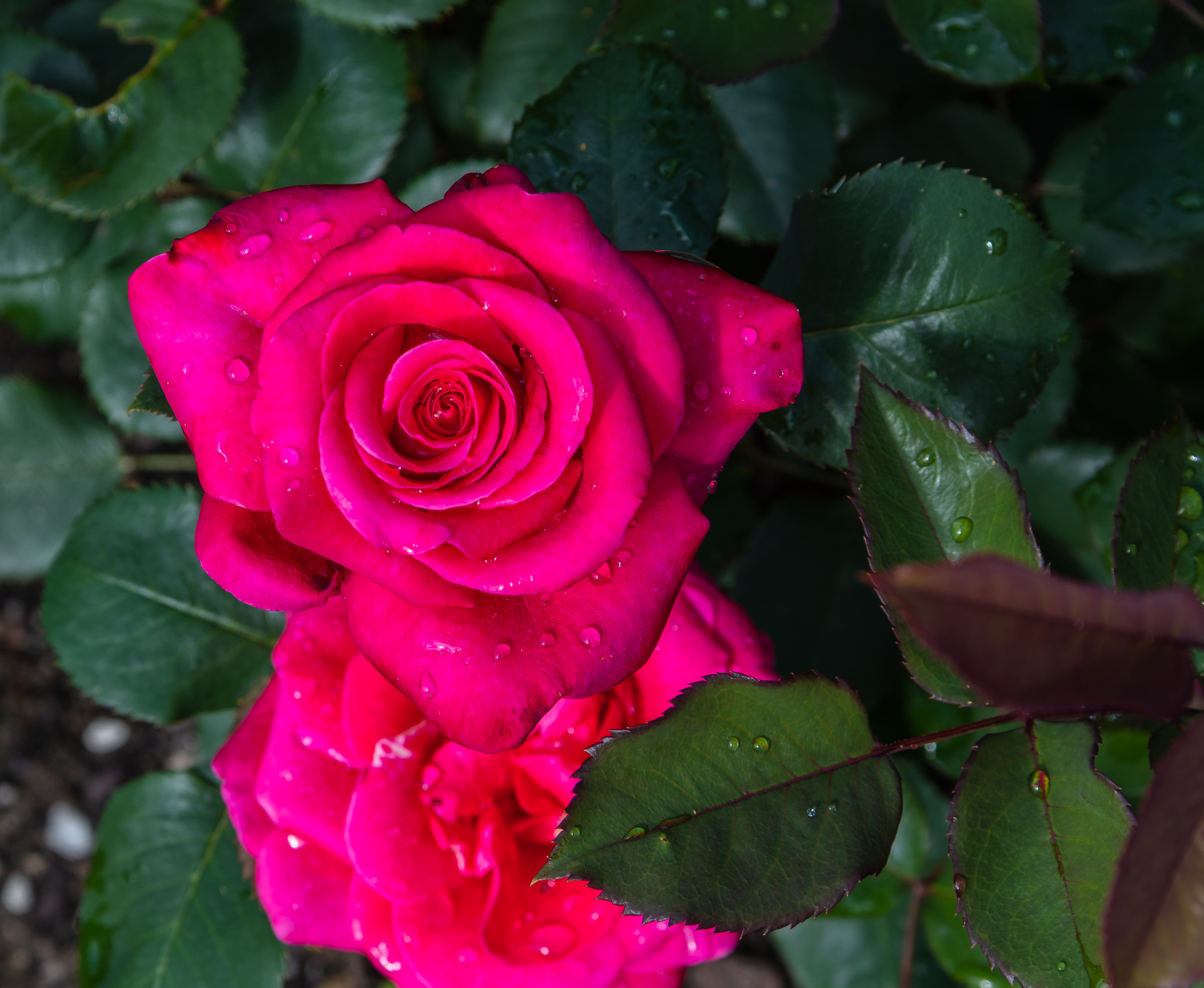 'Charisma' Rose, Bad Wörishofen, Germany